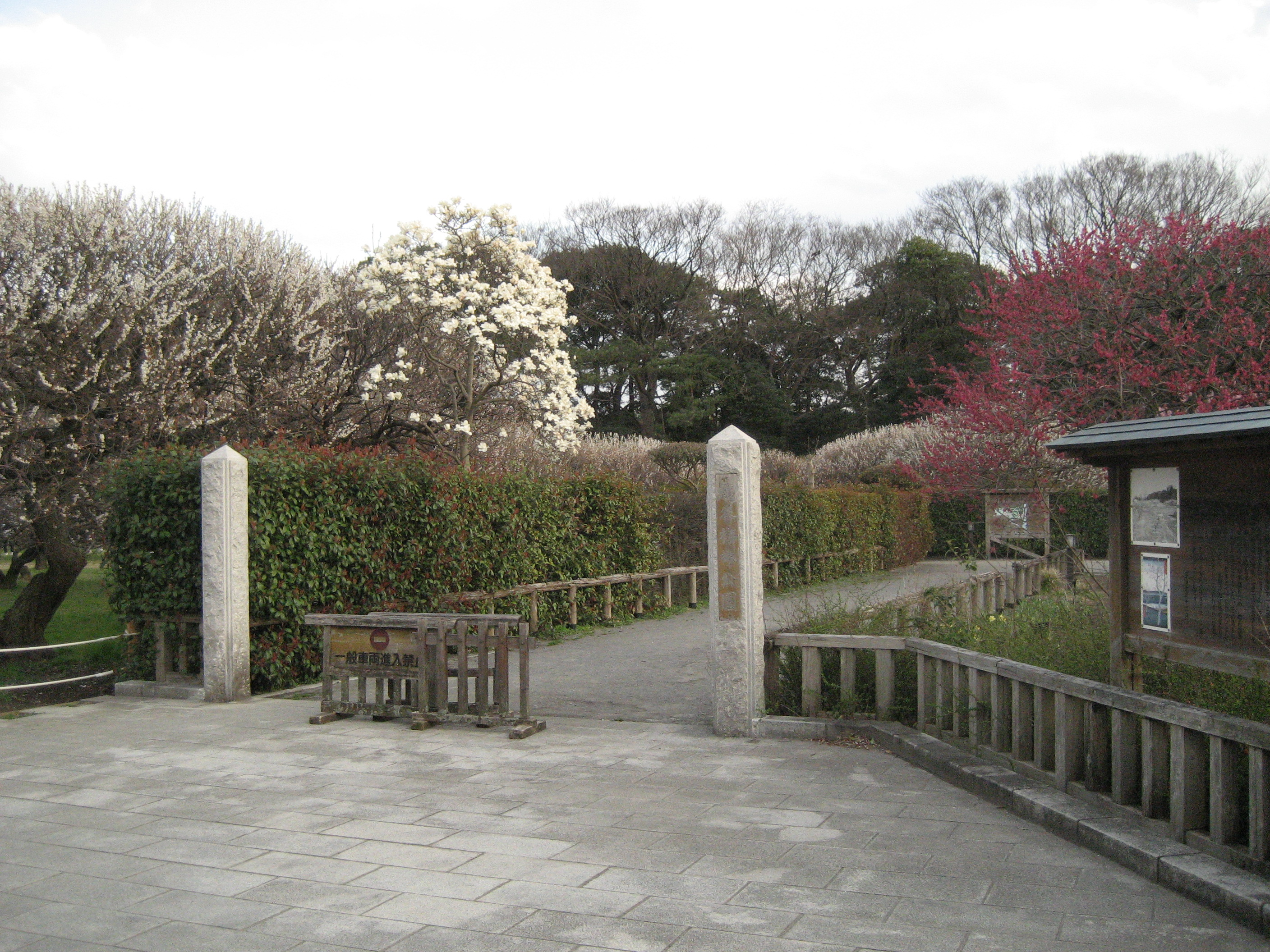 Koshigaya Bairin Park